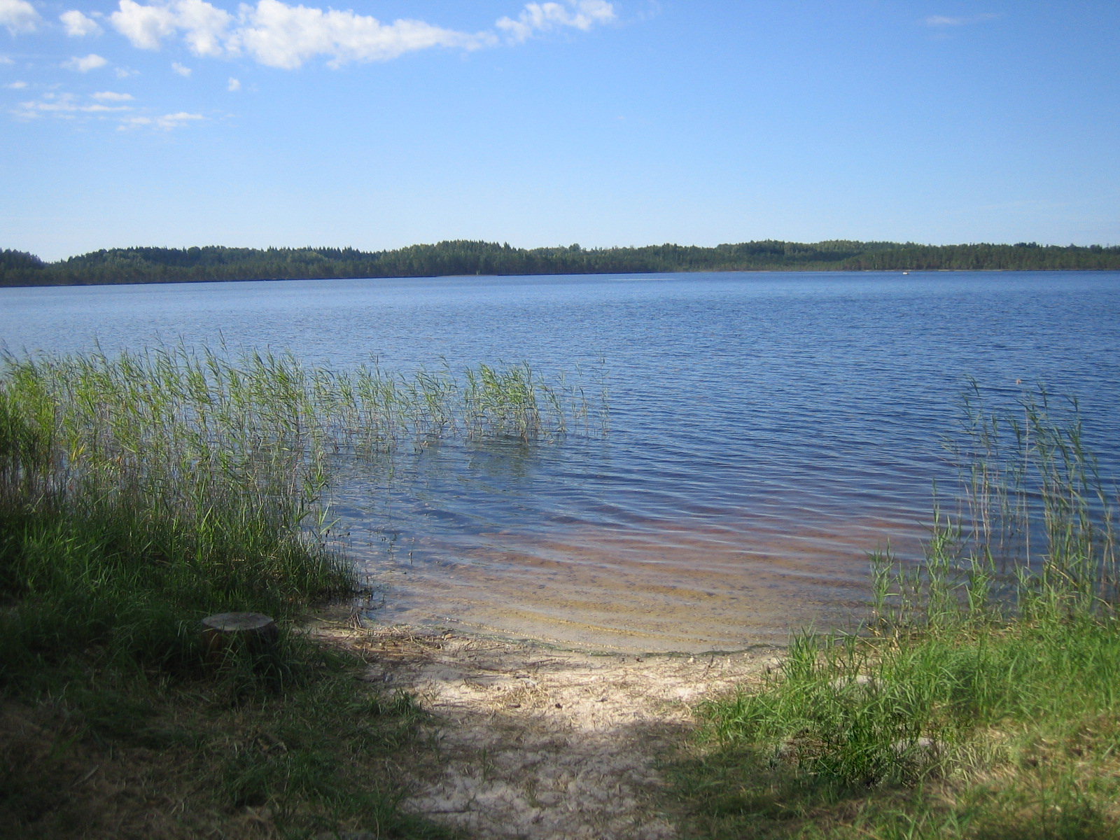 Lake Kirikumäe (Kerigumäe)